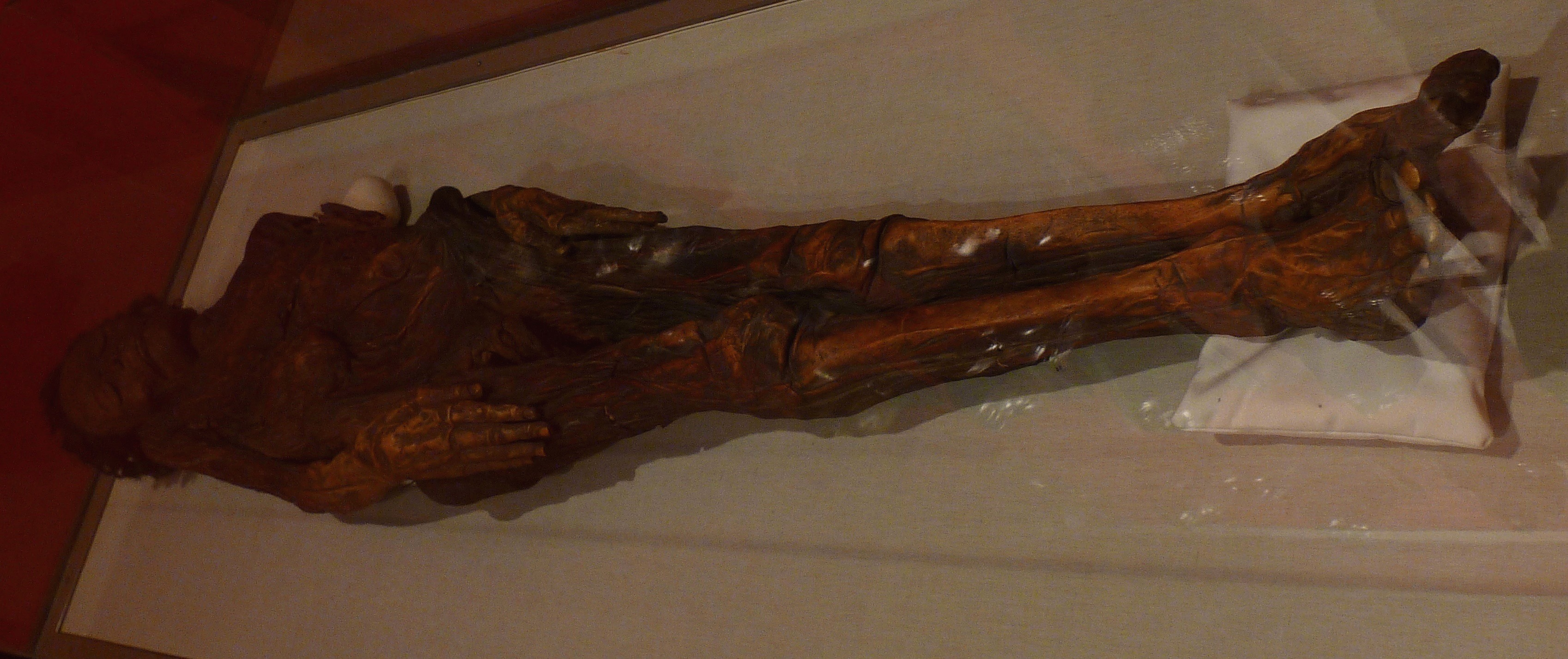 Guanche mummy of the Museo Nacional de Antropología (National Museum of Anthropology), Madrid, Spain